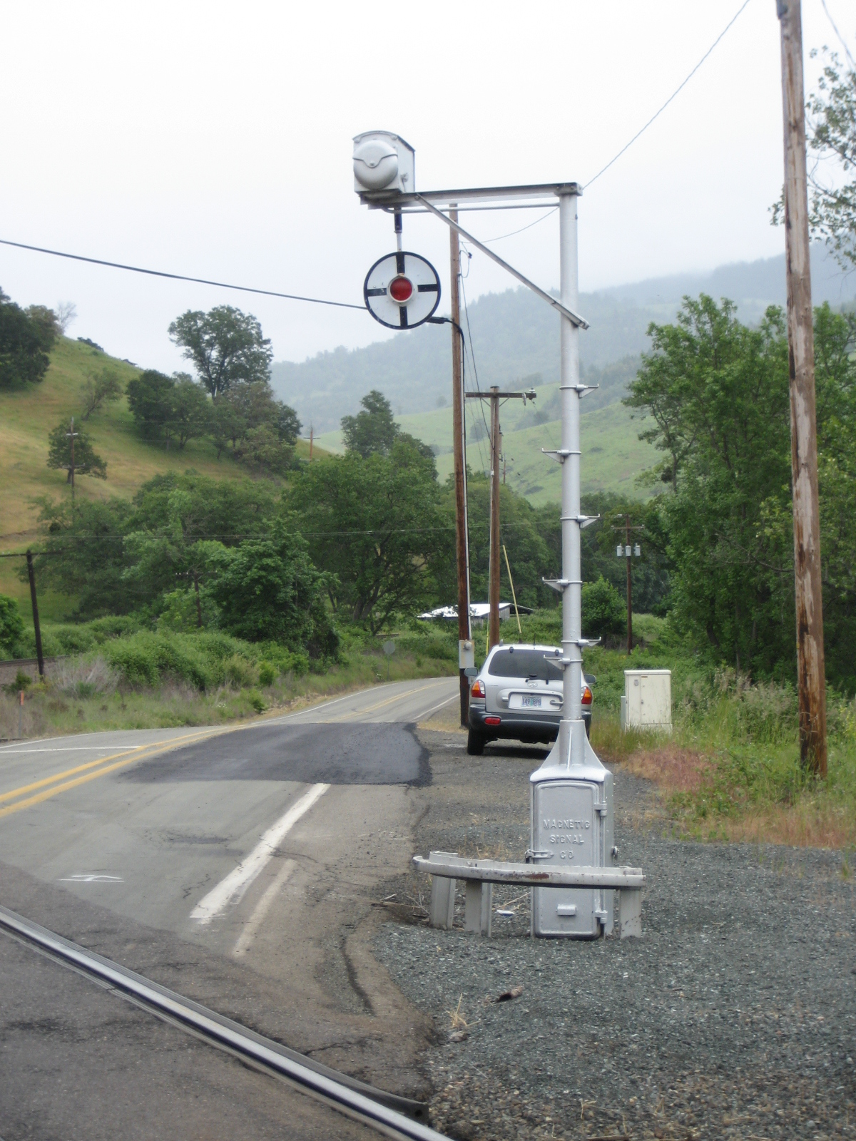 This Magnetic Flagman wigwag protects traffic crossing the CORP (Central Oregon & Pacific) Railroad on Dole Road in Southwestern Oregon, adjacent to Interstate 5. Northbound motorists on I-5 can briefly see this wigwag from the right-hand lane.